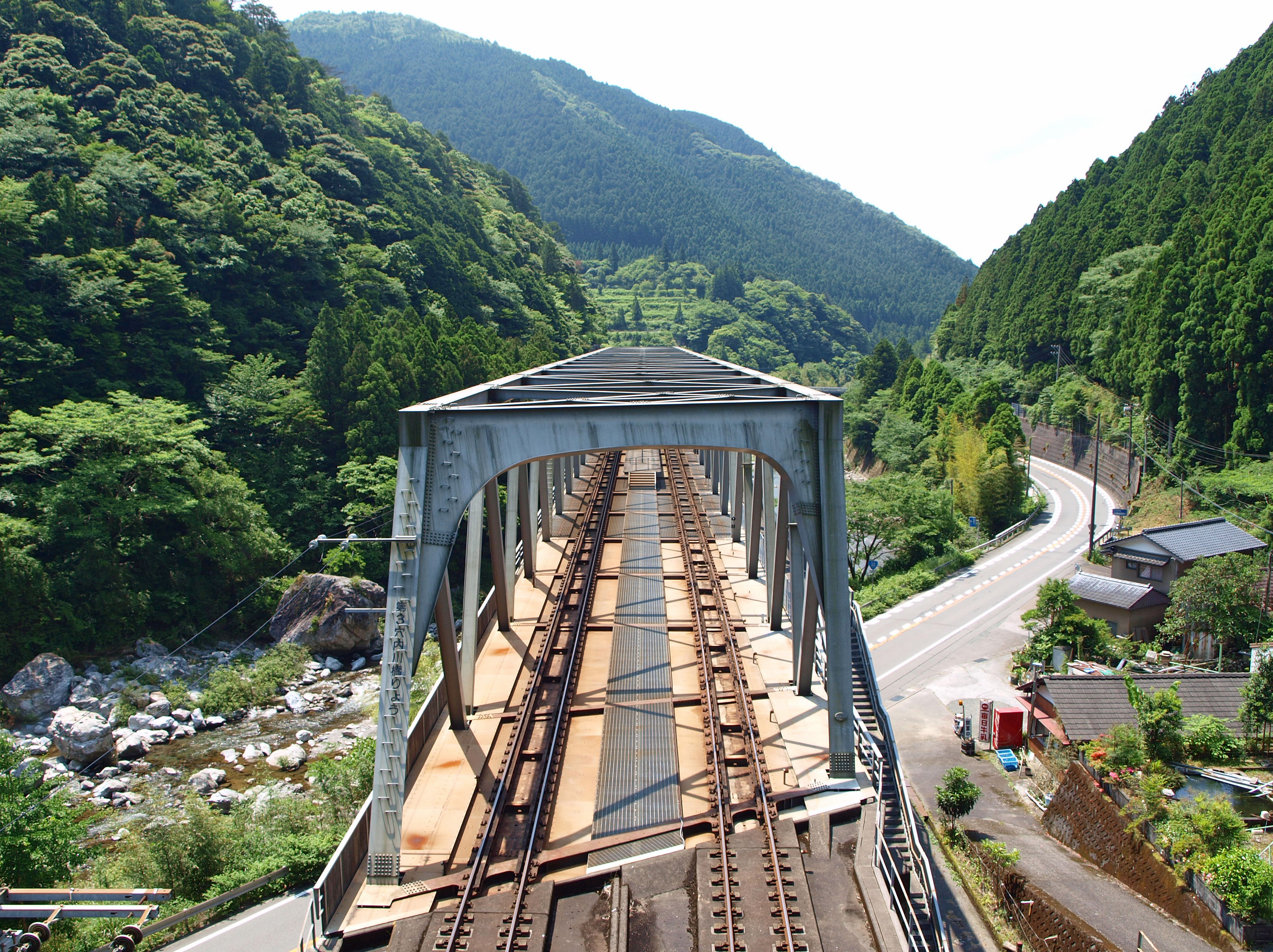 Tosa-Kitagawa station, Dosan-line, JR Shikoku, Japan